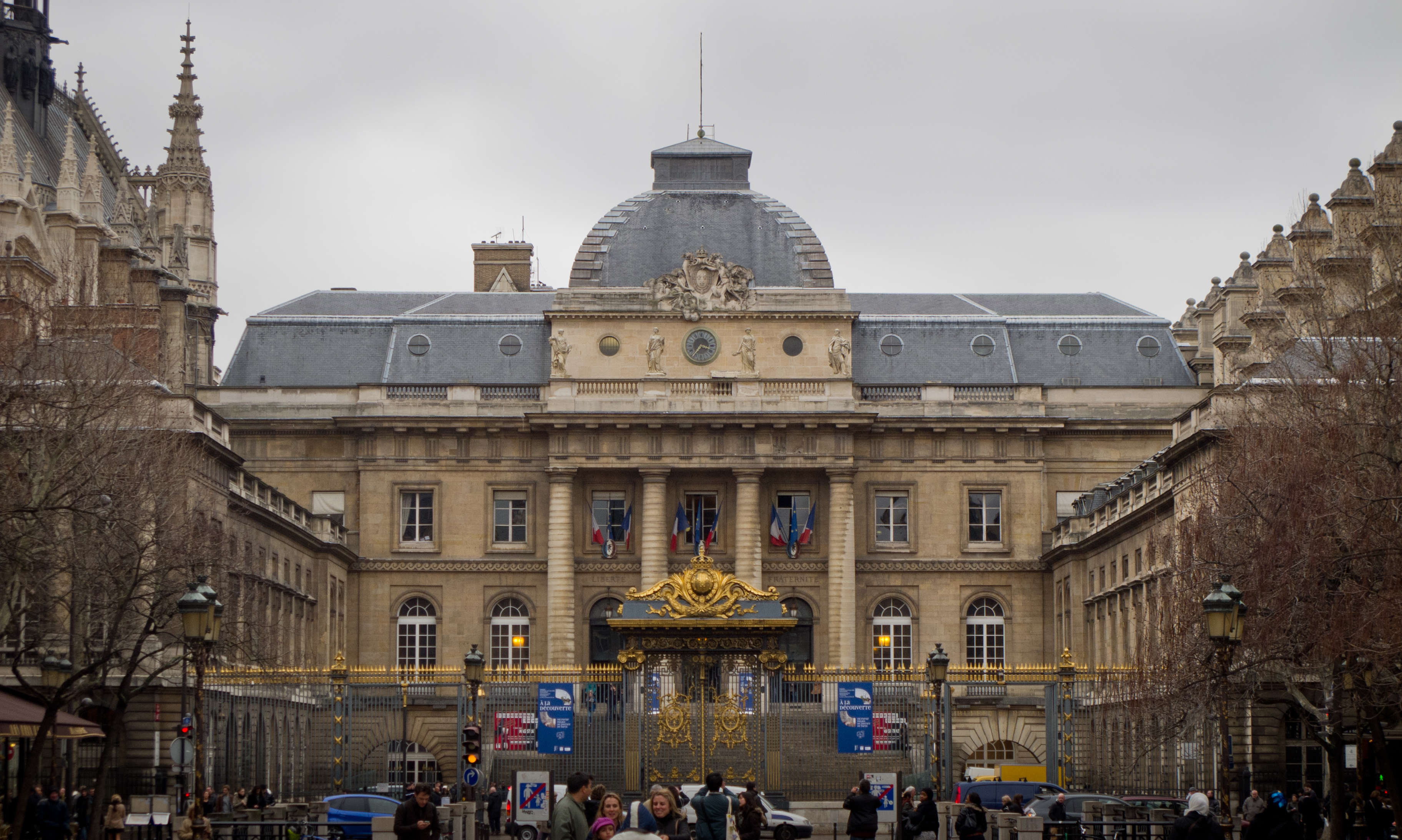 Palais de Justice of Paris, France.